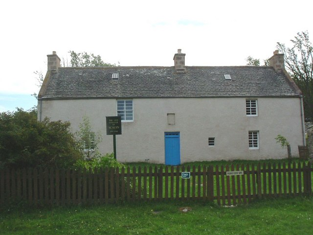 The Seminary at Scalan